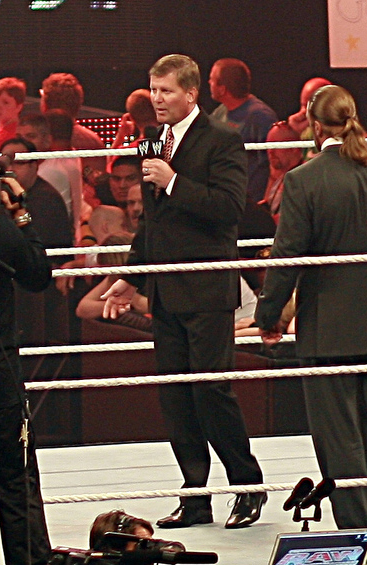 John Laurinaitis crop photo